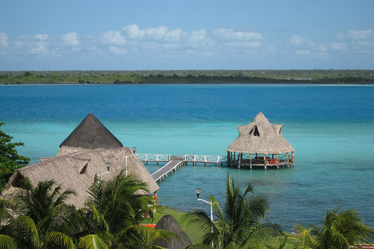 Lake Lagoon Bacalar, Mexico